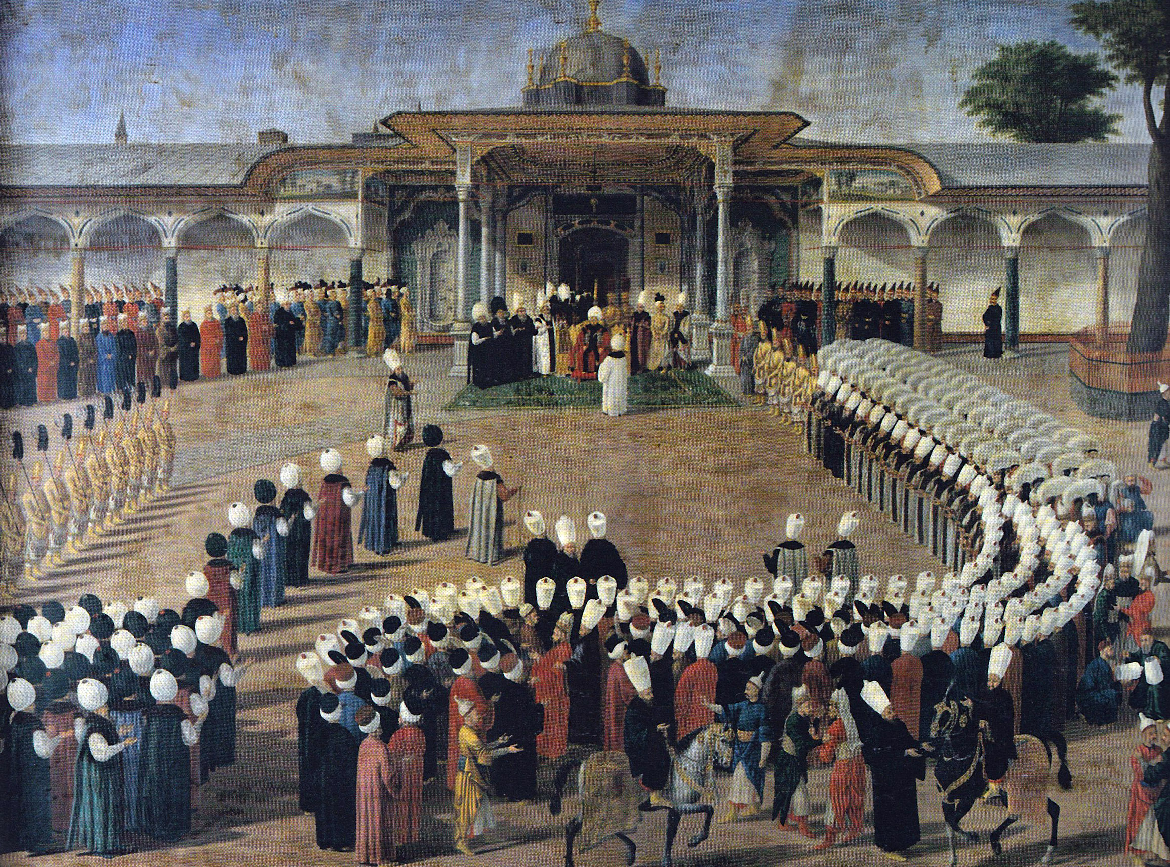 Sultan Selim III holding an audience in front of the Gate of Felicity. Courtiers are assembled in a strict protocol. Oil on canvas. Topkapı Sarayı Müzesi, Istanbul (Inv. 17/163)